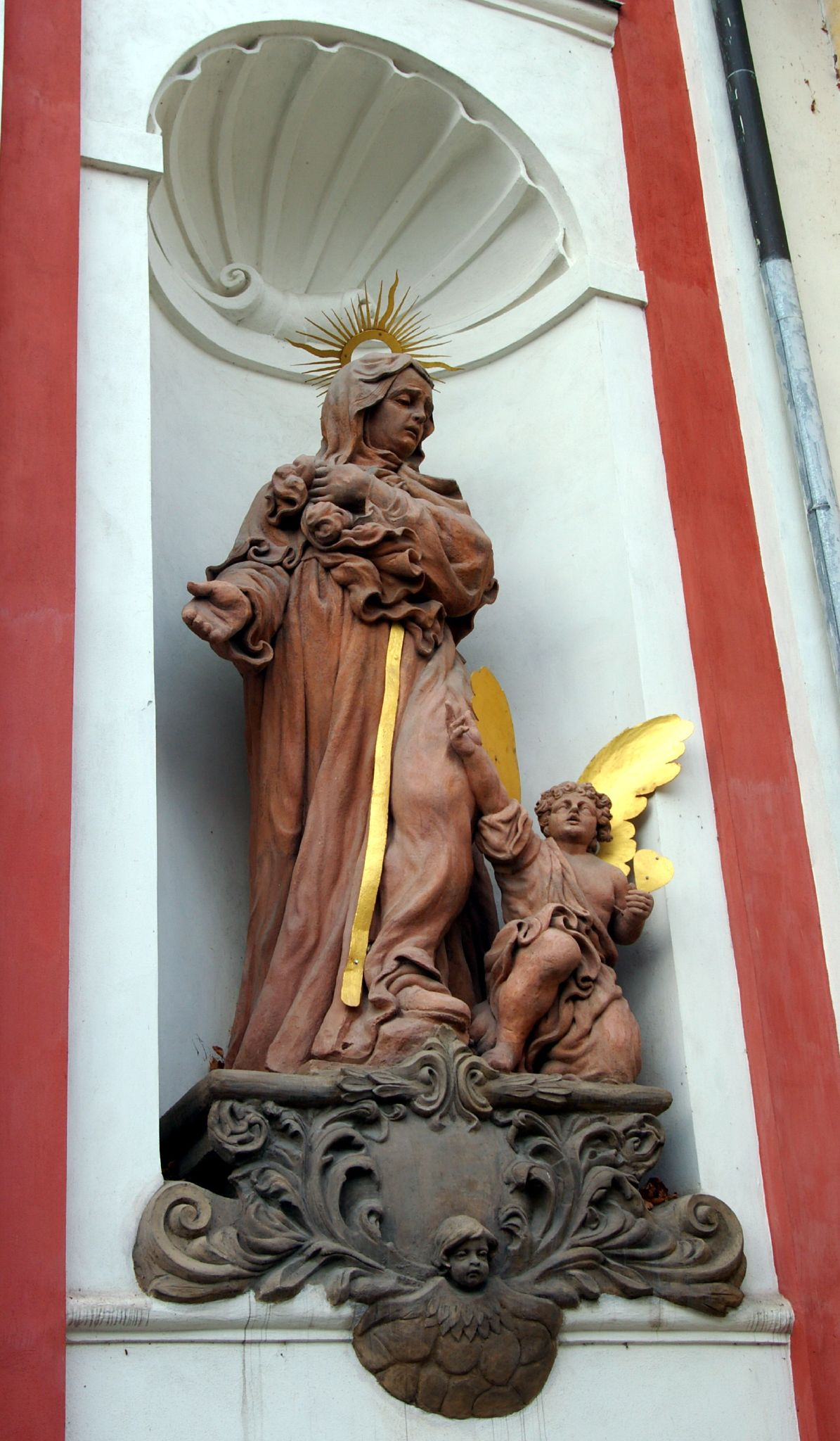 Statue of St Monica of Hippo (c. 1700) at front of church of Nativity of Virgin Mary in Tábor, Czech Republic.